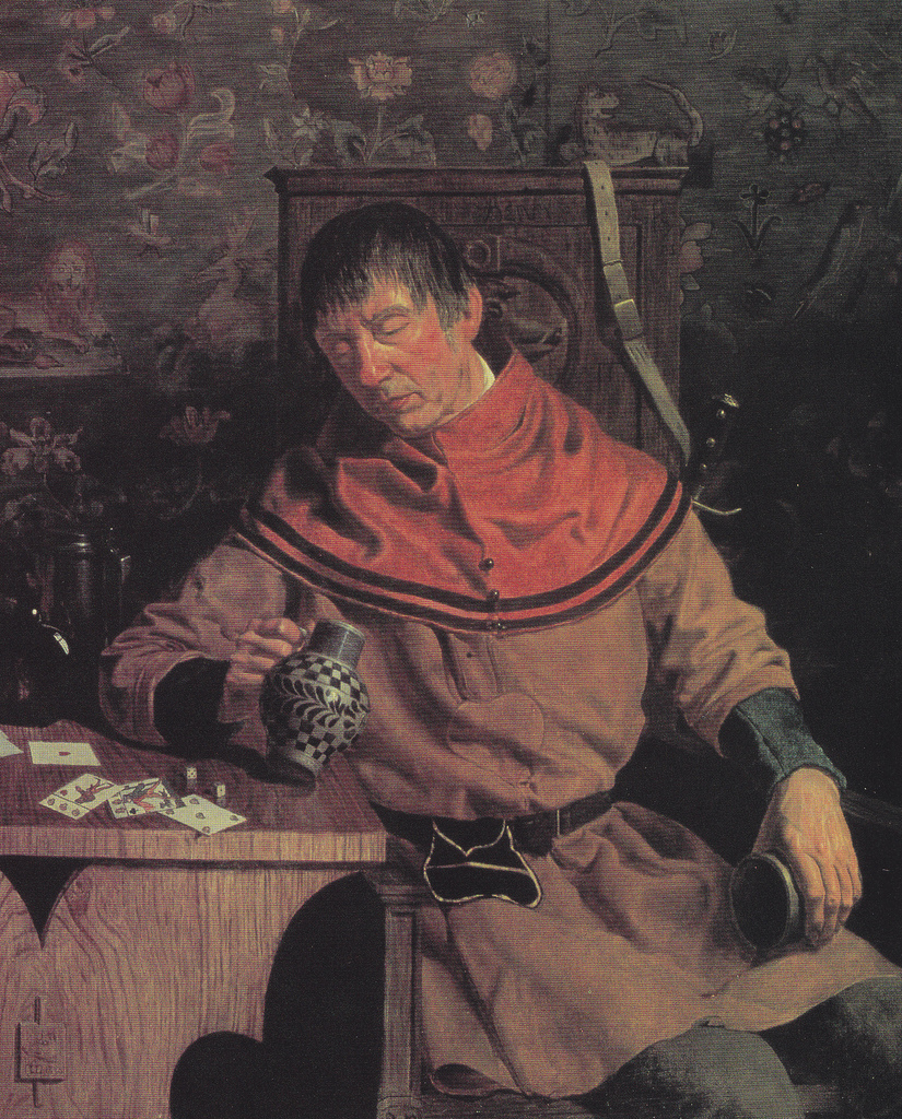 Portrait of Bardolph